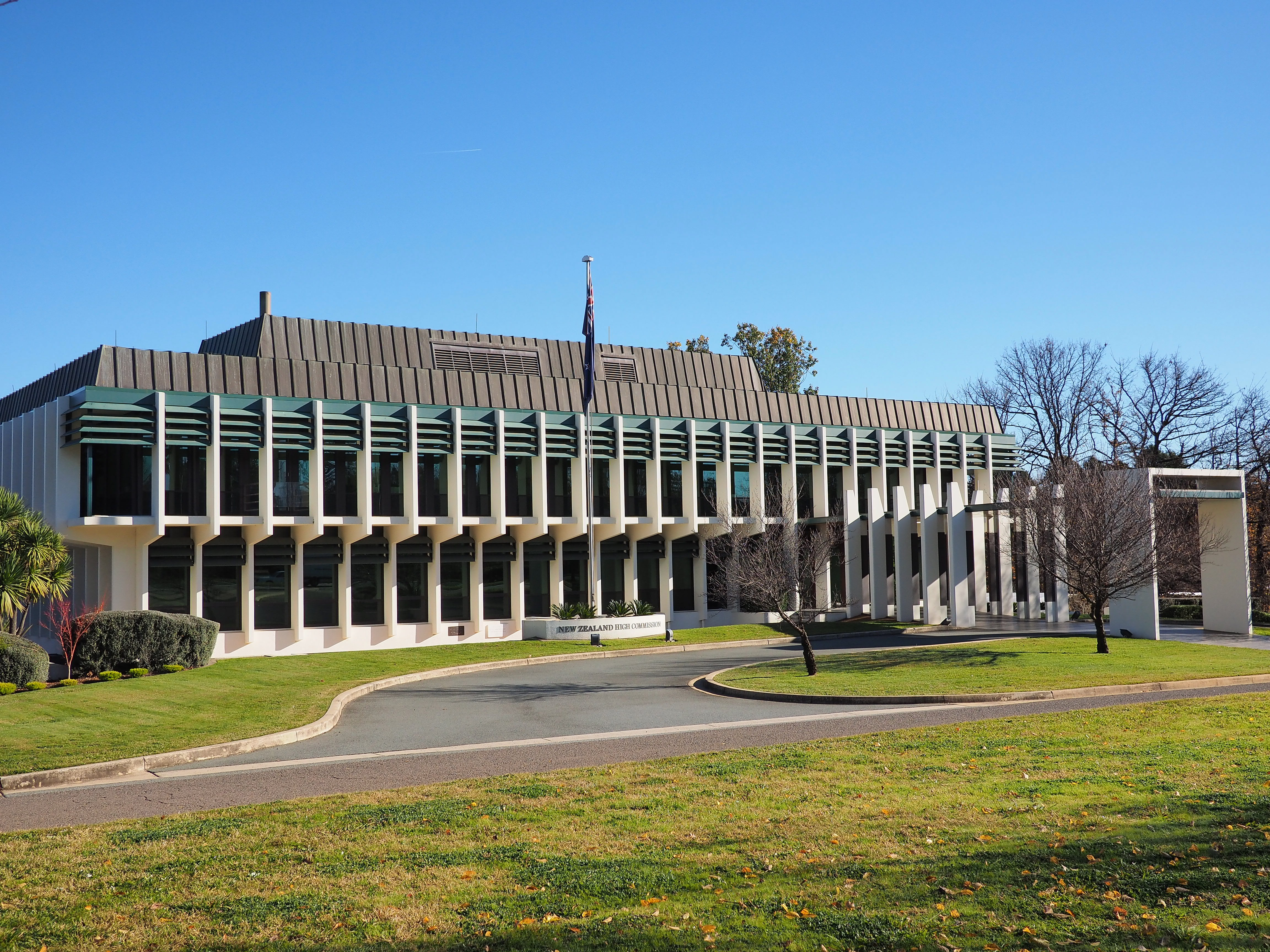 The eastern (street) face of the New Zealand High Commission in Canberra